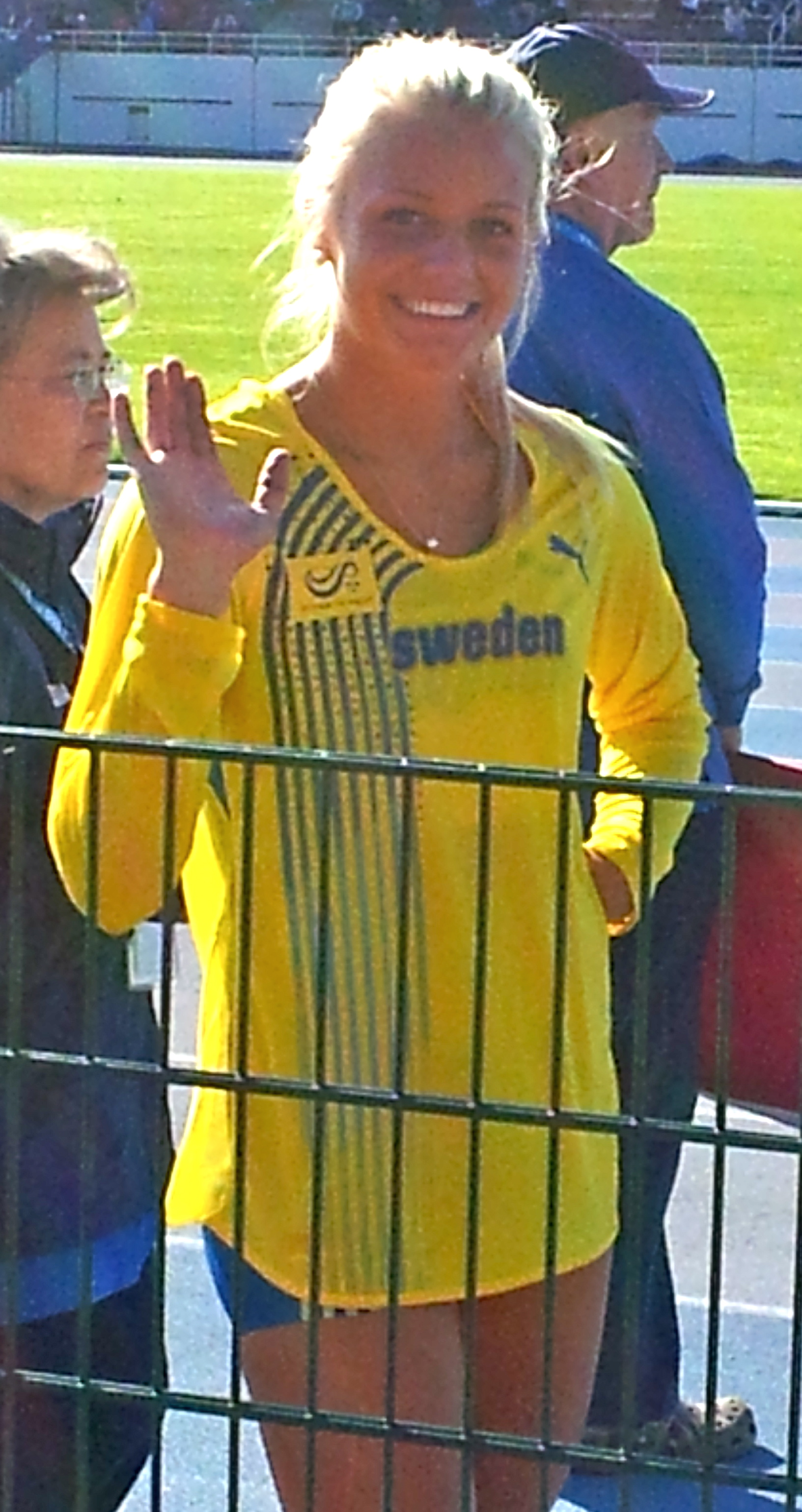 Alissa Söderberg @ Ungdomsfinnkampen 2011